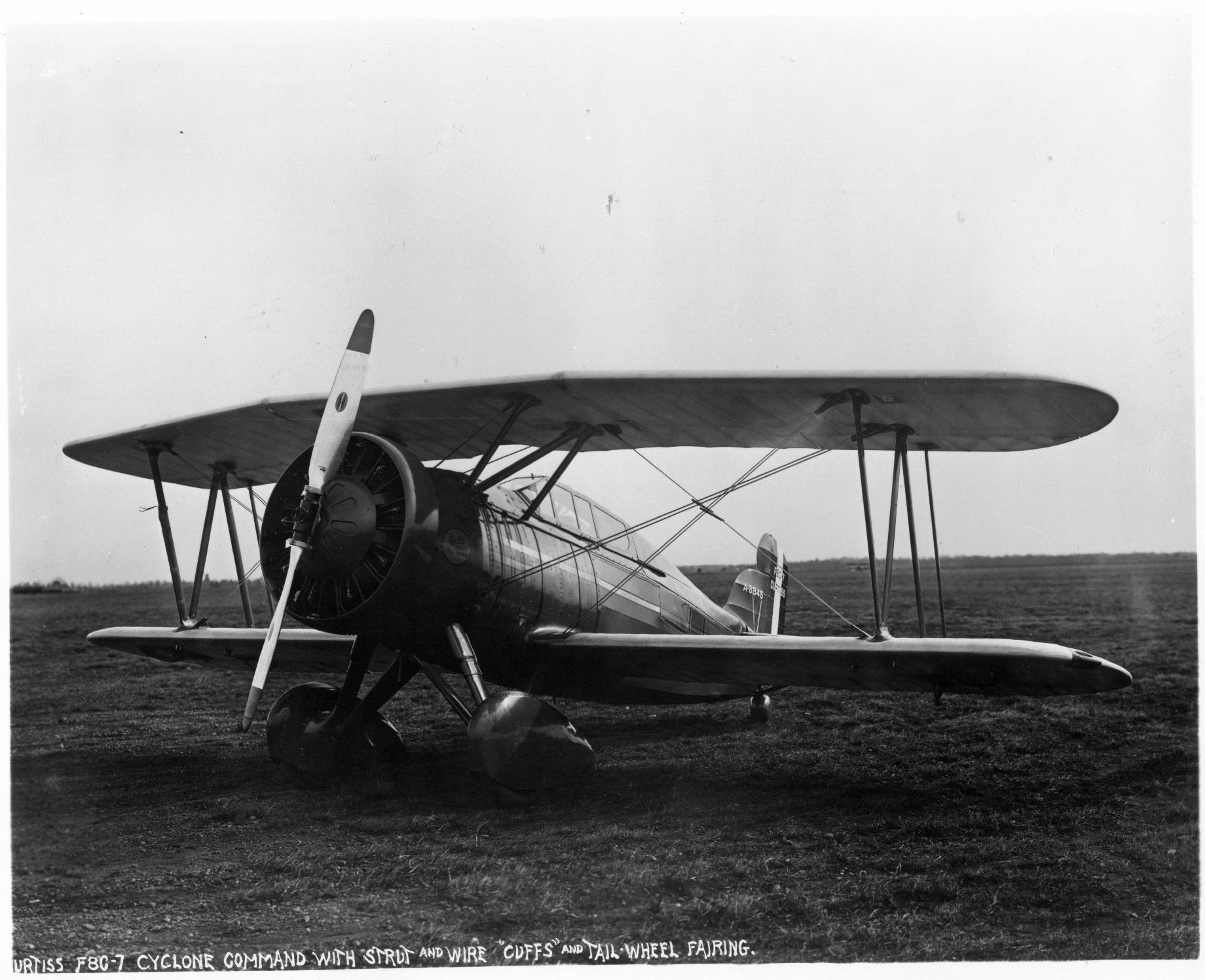 The Curtiss XF8C-7 "Helldiver" (previously A-4, later X02C-2), transport for Asst. Secretary of the Navy David Ingalls.